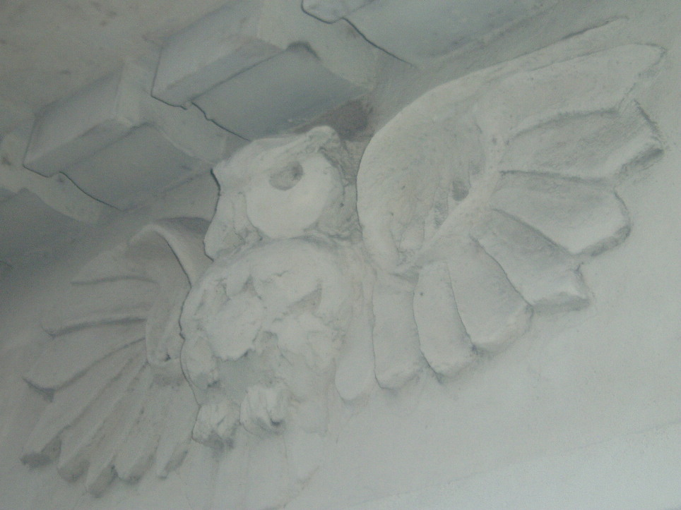 Owl - stucco of a house with the nickname Elefanthuset (elephant house) in Nørrebro, Copenhagen, Denmark